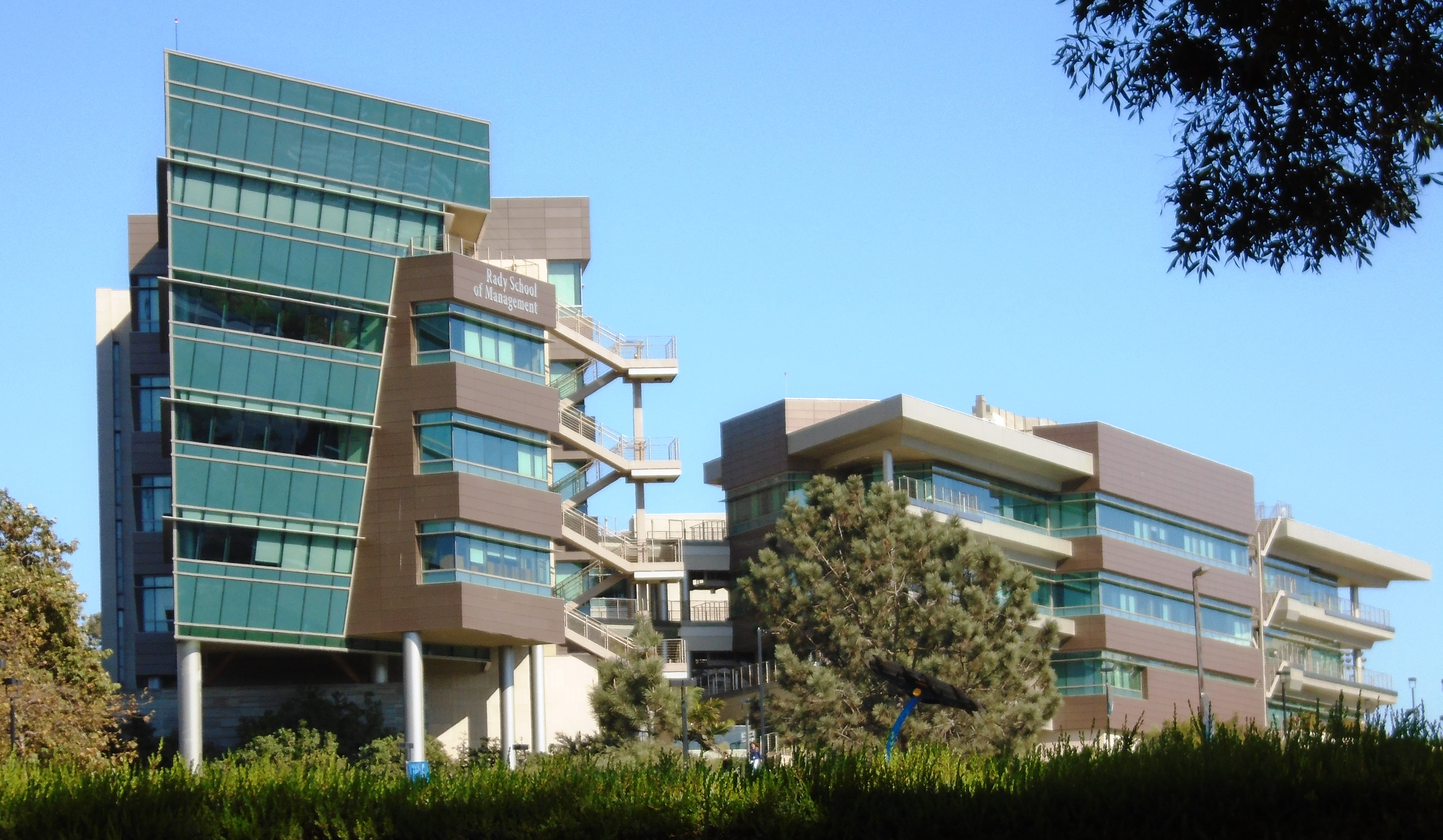 The Rady School of Management is the University of California, San Diego' business school. It was established in 2001, and is located on the UCSD campus in La Jolla, San Diego, California. The school has two buildings, Otterson Hall, which was designed by Ellerbe Becket and opened in 2007, and Wells Fargo Hall, a LEEDS Gold building designed by Charles Luckman & Associates and built in 2010-2012. This view is from the nearby Salk Institute.